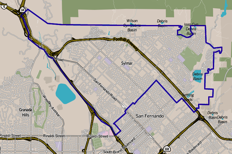 Map of Sylmar, California, as delineated by the Los Angeles Times Other information Boundary map as drawn by the Los Angeles Times on a CC-by-SA background. Note at bottom right of map on the L.A. Times website noted above says "CC-by-SA" (which gives permission to use the map). There is a link there to which explains the meaning thereof. The base map is credited to The Times spells all this out at